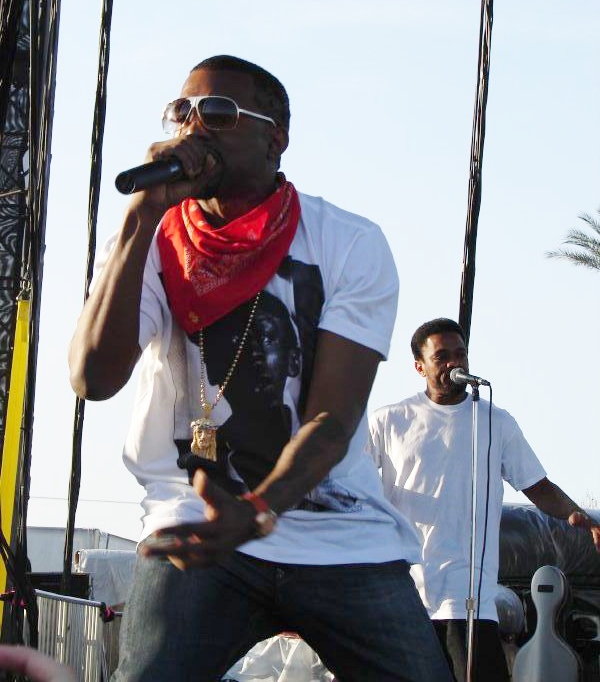 Kanye West performing at Coachella Valley Music and Arts Festival on April 30, 2006 in Indio, California.